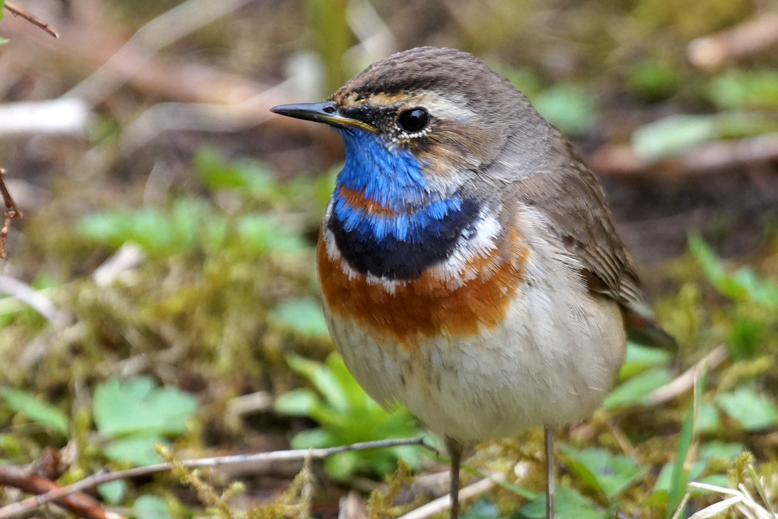 Bluethroat (Luscinia svecica)